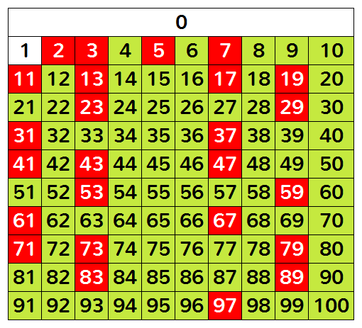 The prime and composite numbers from 0 to 100. Prime numbers Composite numbers 0 and 1